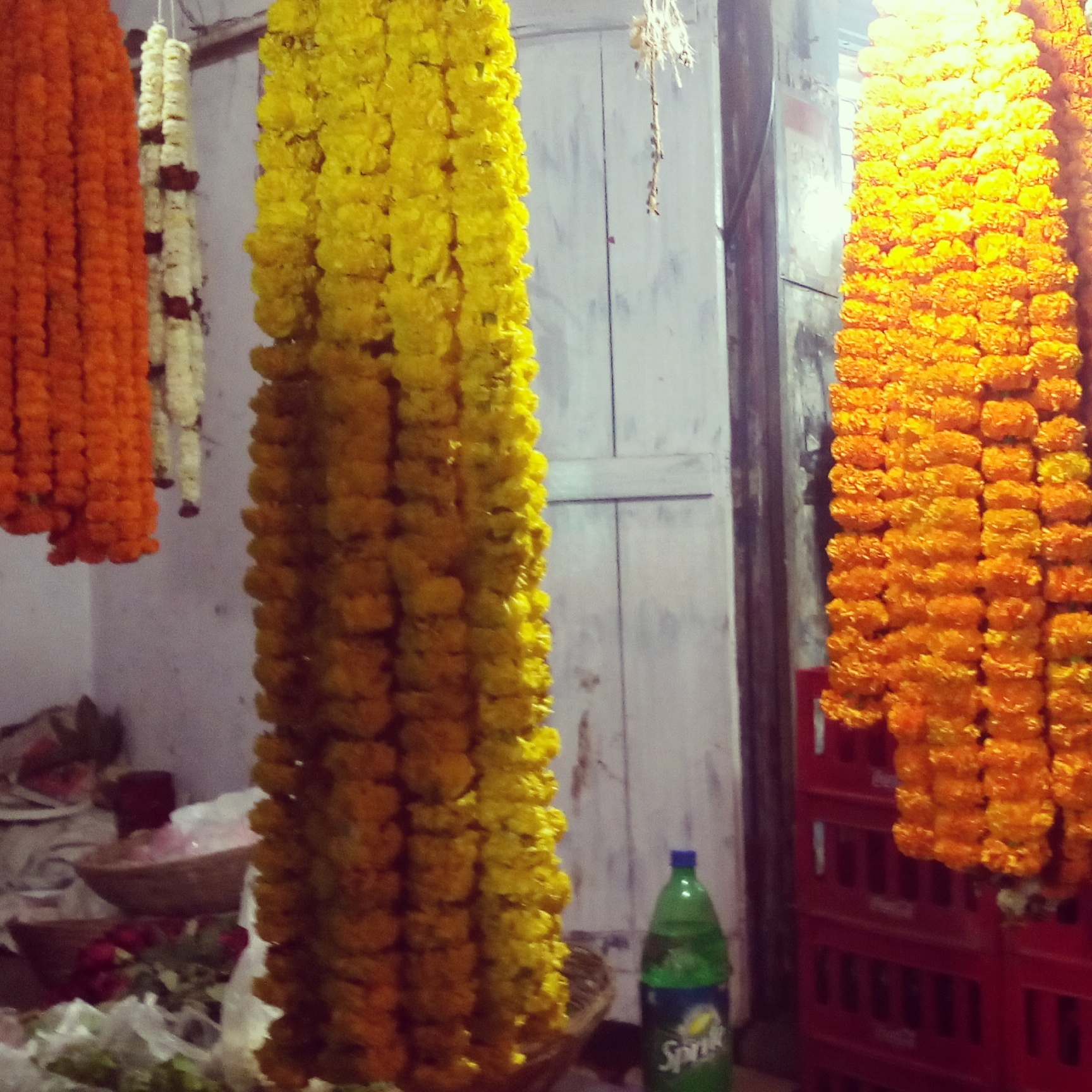 Varieties of Marigold for offering to Lord Lingaraj during Shivaratri at Bhubaneswar